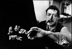 Reinhoud